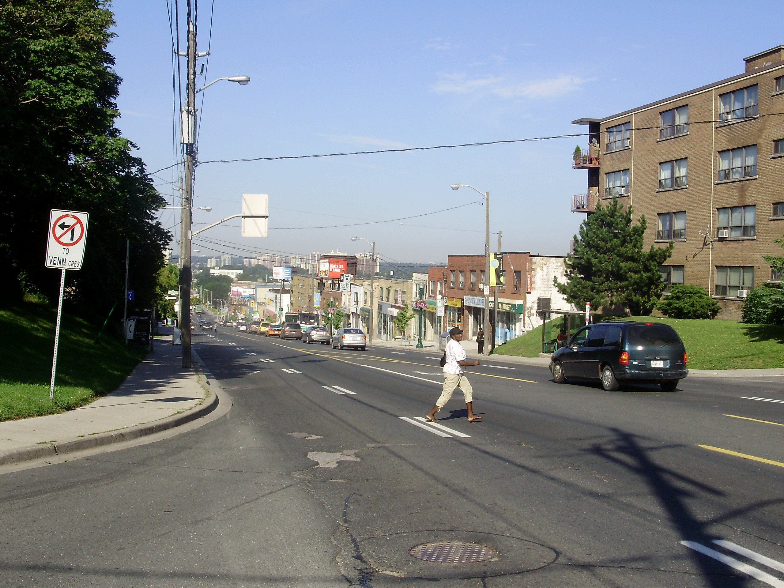 The neighbourhood of Beechborough-Greenbrook in Toronto, Canada, looking northwest from the intersection of Eglinton Avenue West and Venn Crescent.